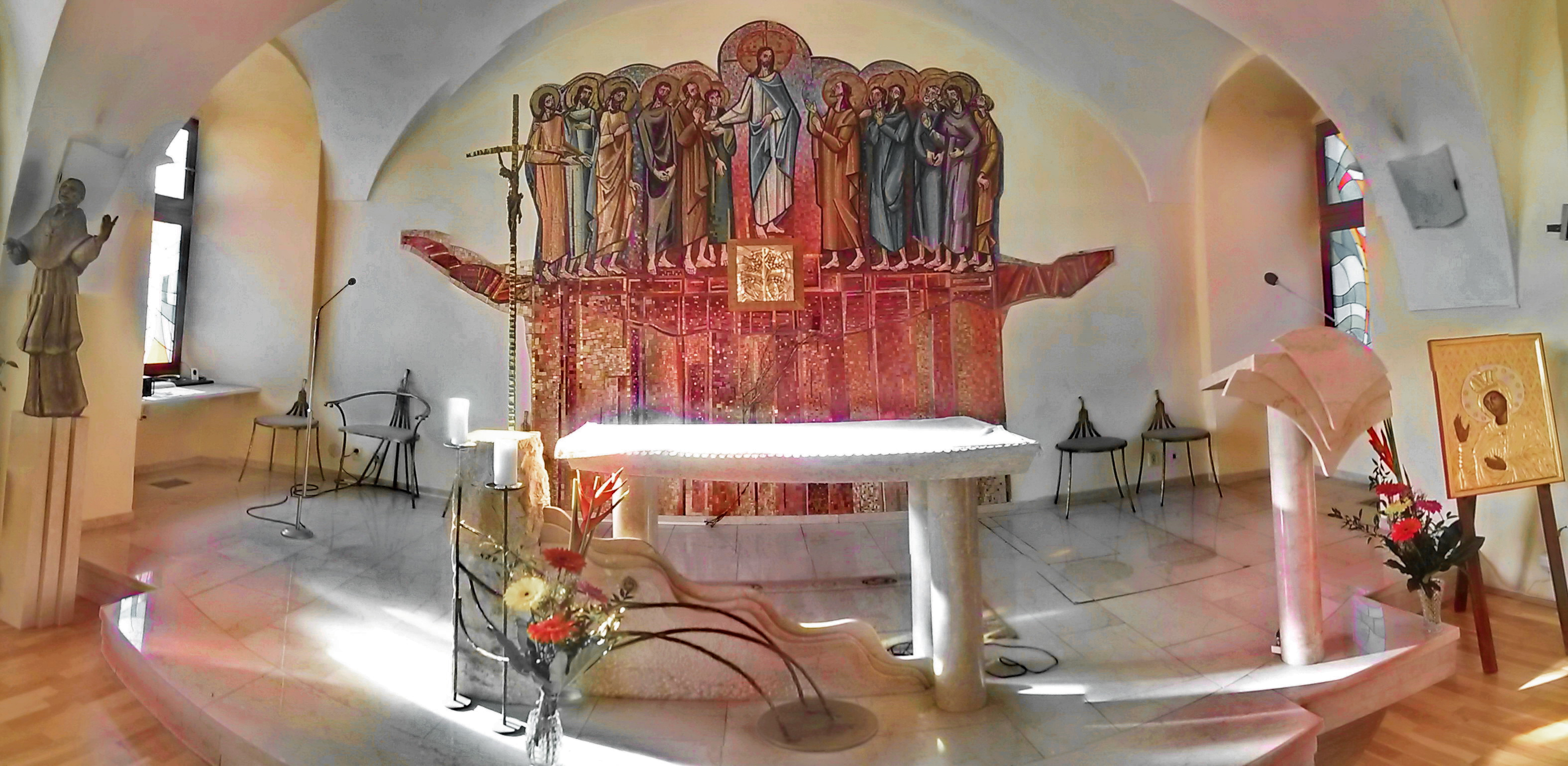 St Charles Borromeo Seminary Chapel in Košice. View of the chapel sanctuary. On the wall is a mosaic depicting the scene from the Holy Gospel of Mark, Mk 3:13-14 "Jesus [...] called for those he wanted [...] so that they would be with him..." The golden tabernacle is in the center of the mosaic. On the far left is a statue of St Charles Borromeo. On the far right is an icon of Holy Mary of Obišovce. The altar is in the middle. On the left side of the altar is a meter high marble rock with marble waves pouring out to the right side depicting the scene from the book of Numbers, where Moses struck the rock and out poured water for Israel, Nm 20:11. Nm 20:11 is a theological symbol for Christ's sacrifice on the Cross. To emphasize this point, the Crucifix rests upon the rock. The pulpit on the right has front in the form of an open book - God's Word.